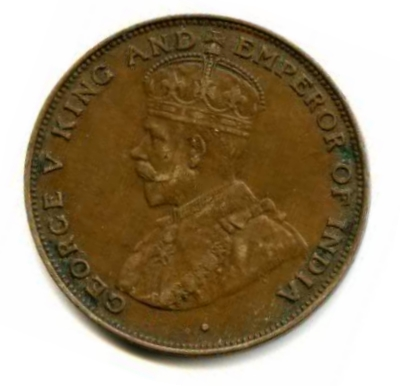 Hong Kong one-cent coin dated 1923 中文（香港）: 1923年發行的香港一仙硬幣